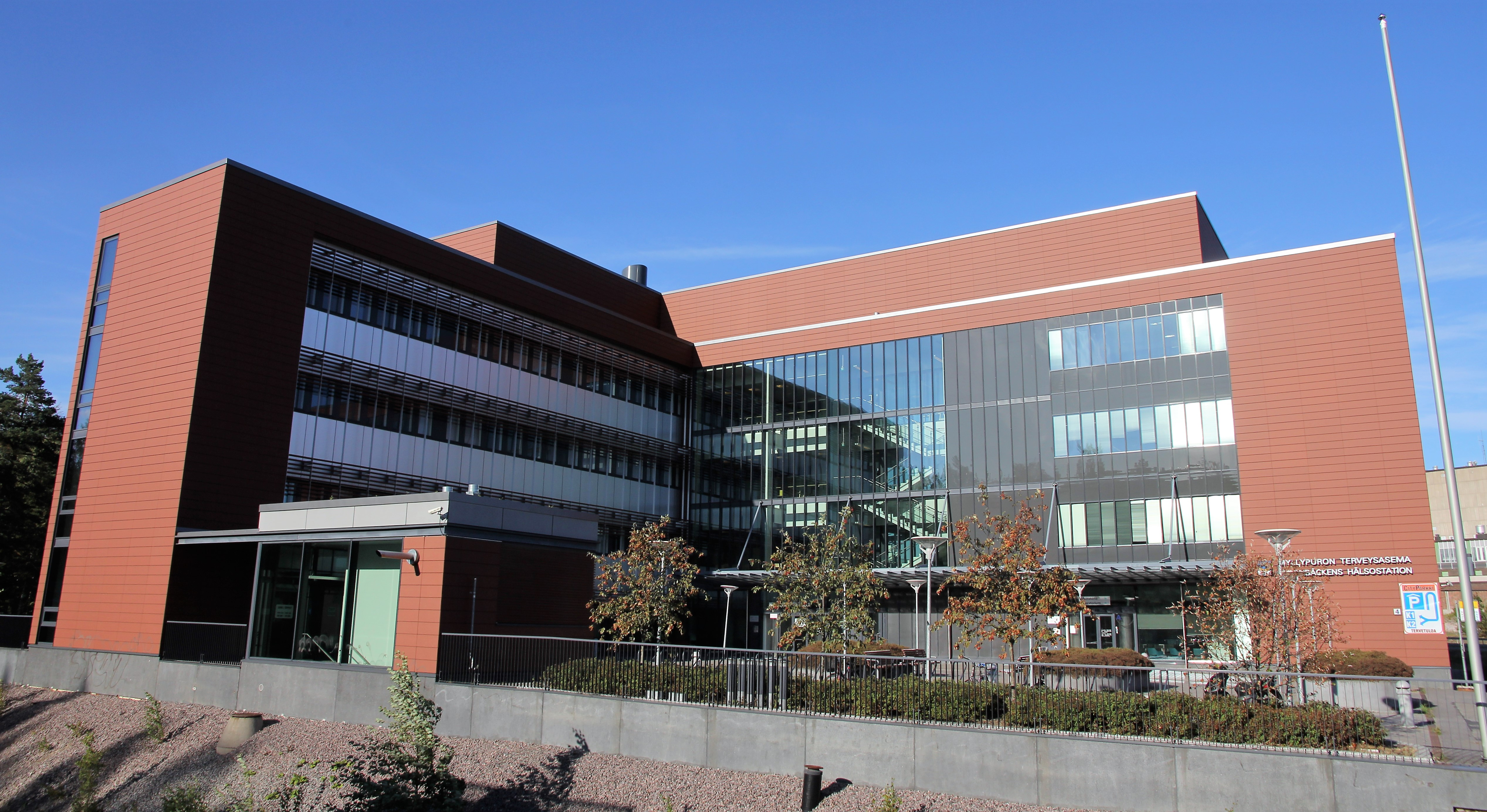 Myllypuro health station seen from Myllypuro metro station. Address: Jauhokuja 4, 00920 Helsinki.